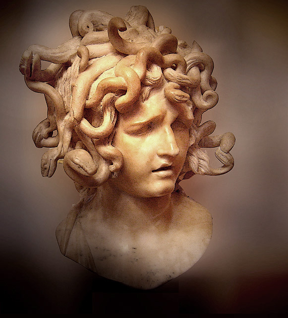 Medusa, by Bernini. Capitoline Museums, Rome. Background edited